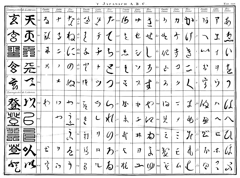 Japanese "alphabet" by Engelbert Kaempfer 1690-1693. Listing firo-canna (modern romanisation: Hiragana) and catta-canna (modern romanisation: Katakana), alongside "imatto-canna" (mostly variant kana, or "Hentaigana", mistaken as a congruent syllabary). Two rows of right-to-left columns, top comes before bottom. Written out using Japanese consonant ordering but Roman vowel ordering. Each column is written in right-to-left columns of Hiragana, then Katakana, then "imatto" kana, and romanisation (which differs from modern romanisations in places) last (leftmost) of all.